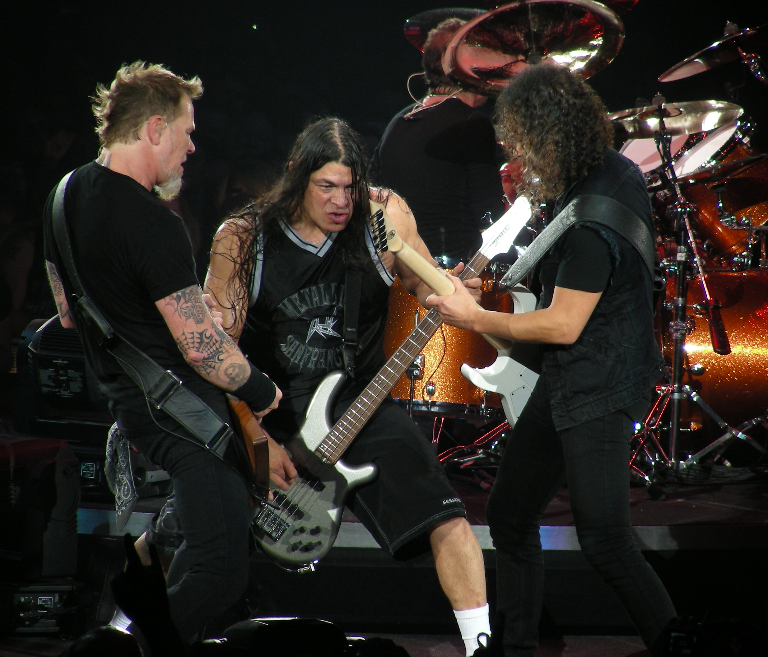 Kirk Hammet, Robert Trujillo and James Hetfield at Metallica concert on 2009-03-30 (Death Magnetic Tour, Ahoy Rotterdam)